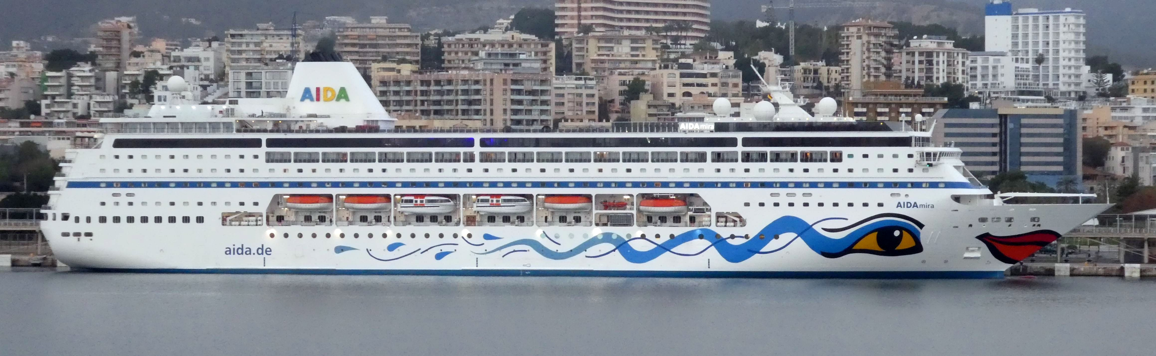 Ship AIDAmira in Palma de Mallorca, Spain, 2019-12-01